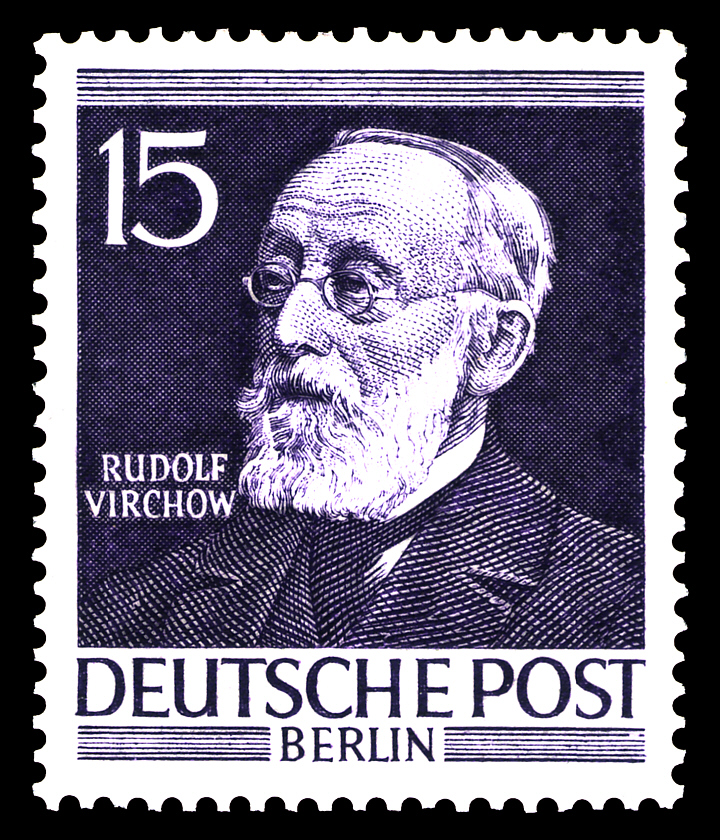 stamp series, men of the history of Berlin I, Rudolf Virchow, (1821-1902)